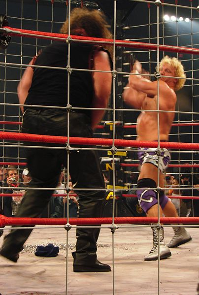 Jeff Jarrett hitting Abyss with a thumbtack-filled guitar. Lockdown (2007), Family Arena, St. Charles, MO, April 15en:2007.